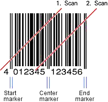 Reading part of an EAN-13 bar code. Based on a Wikipedia image by MartinWoelker: TeillesungEAN13.jpg